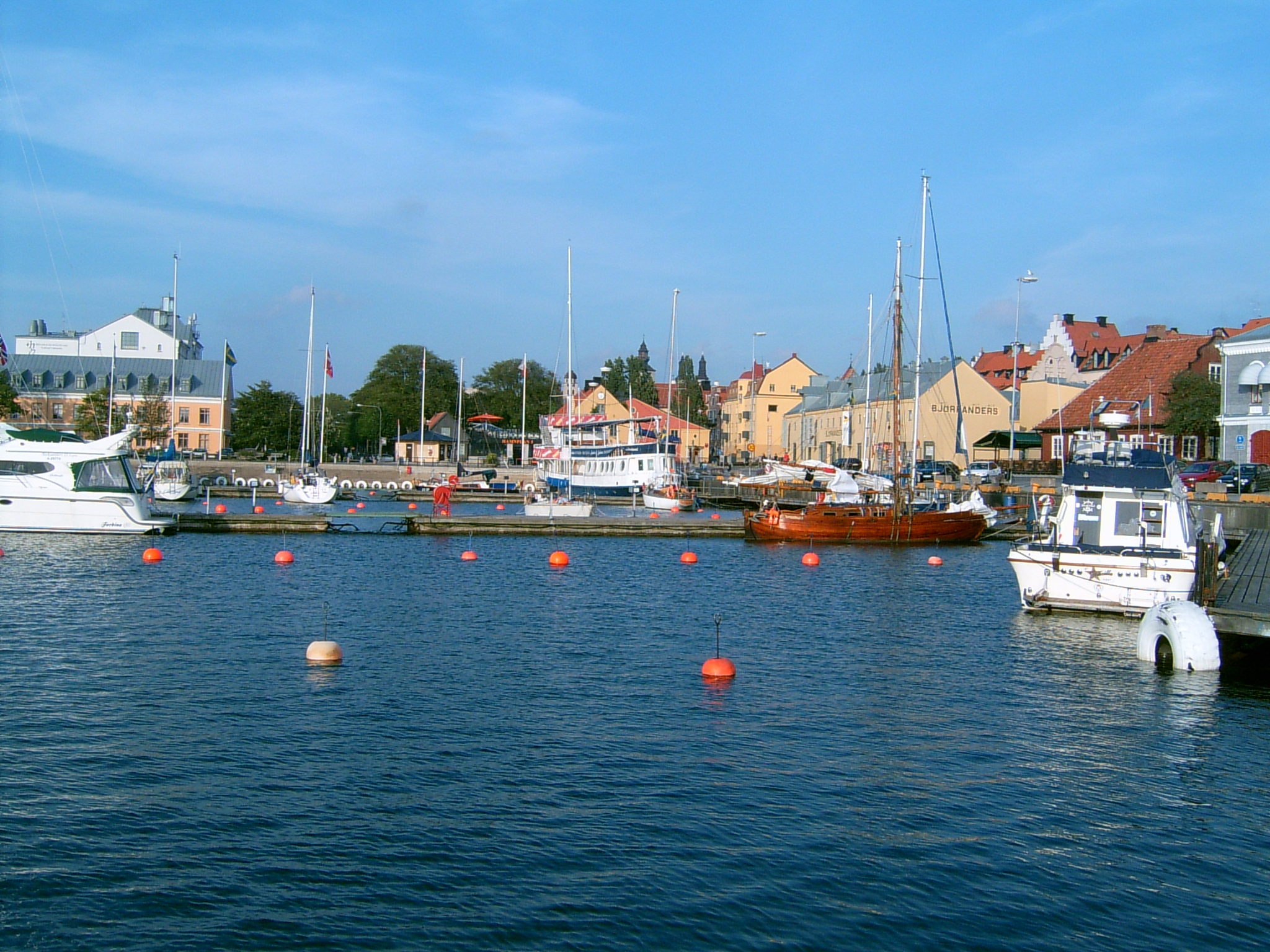 The harbor of Visby.